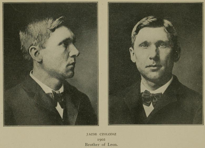 Photos of Jacob Czolgosz, brother of assasin Leon Czolgosz